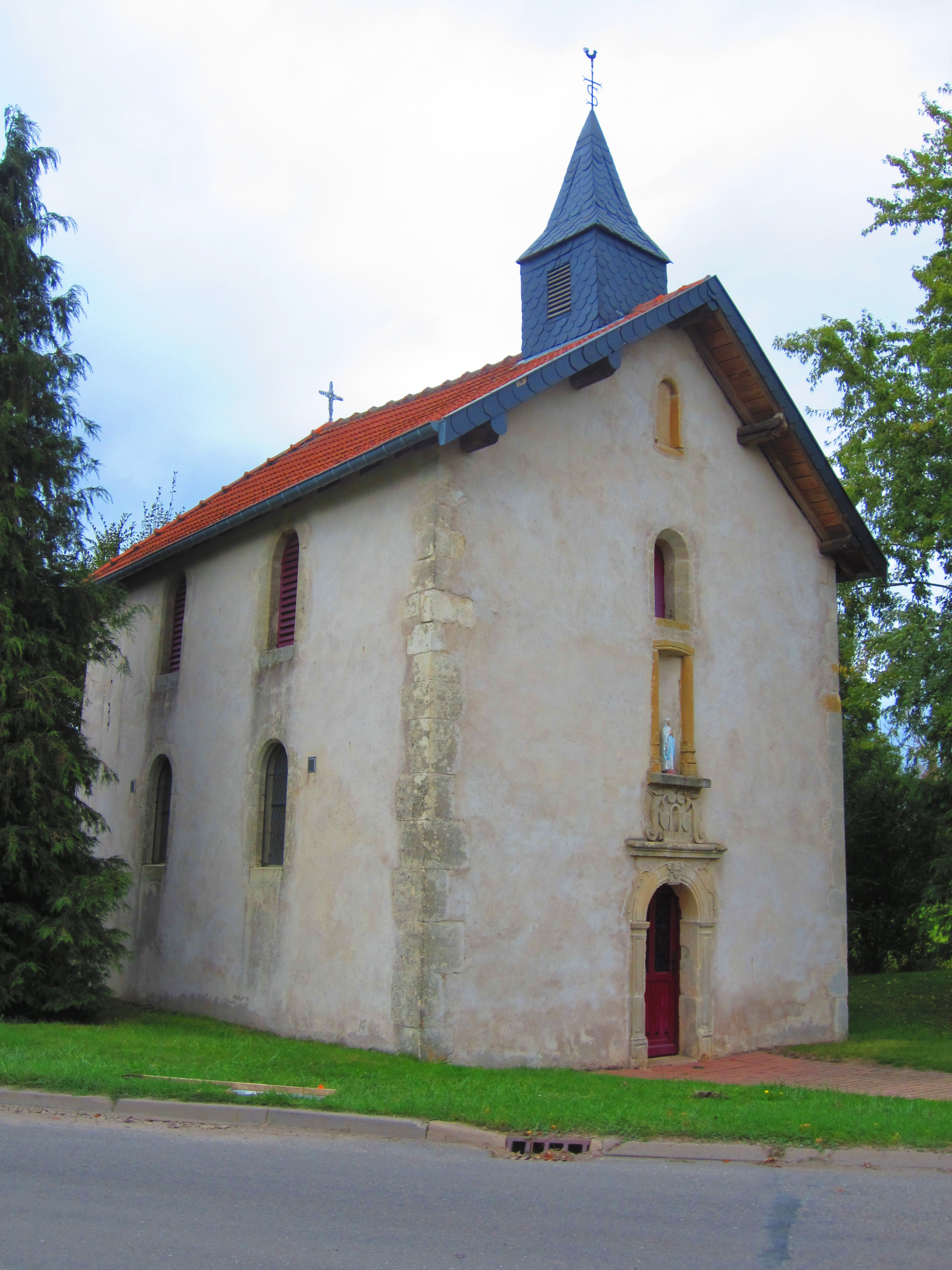 Baudrecourt chapel